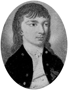 John Gaillard (1765-1826) US Senator from South Carolina This United States Congress image is in the public domain. This may be because it is an official Congressional portrait, because it was taken by an official employee of the Congress, or because it has been released into the public domain and posted on the official websites of a member of Congress. As a work of the U.S. federal government, the image is in the public domain.